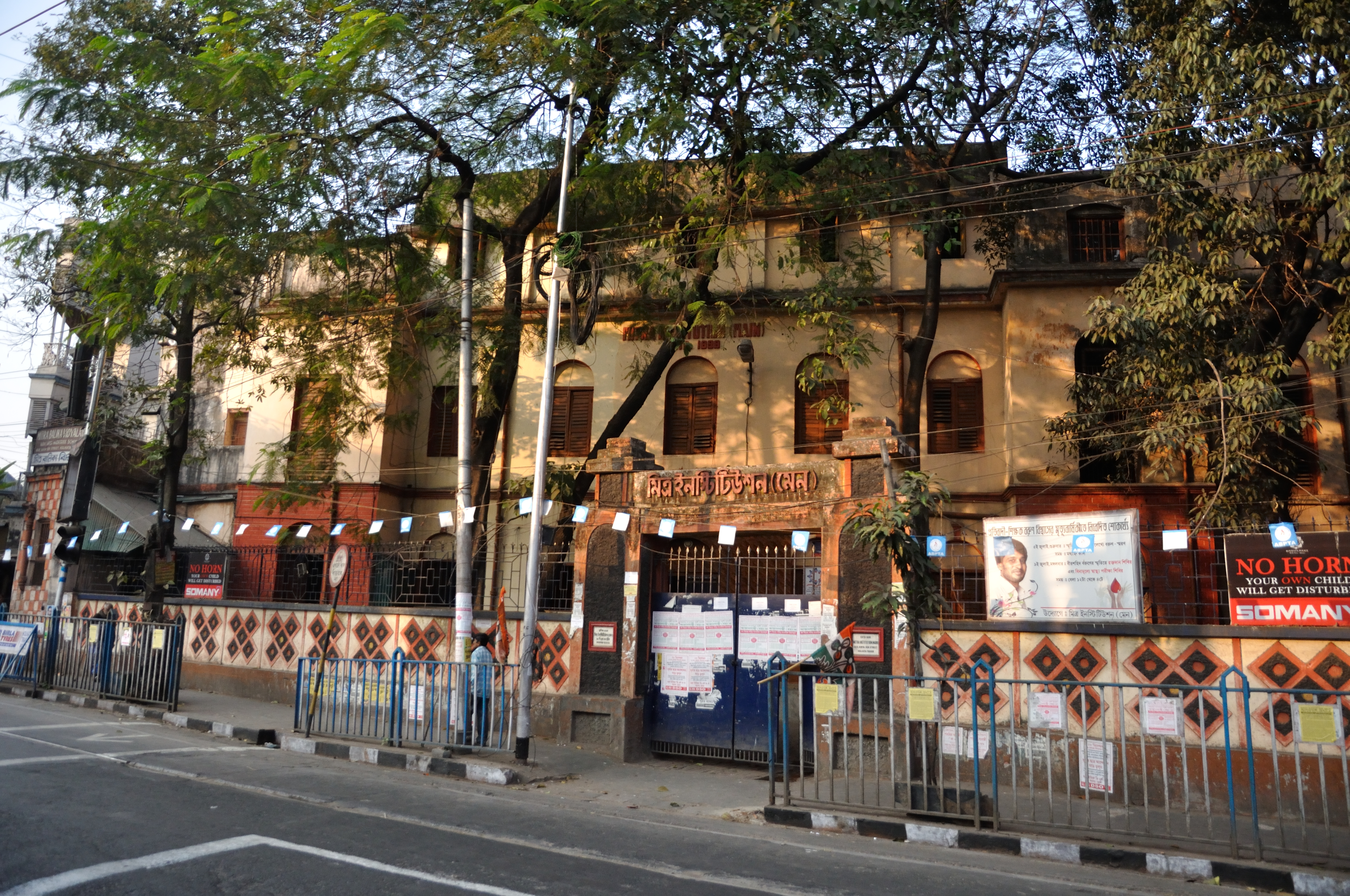 Photographed in Kolkata.